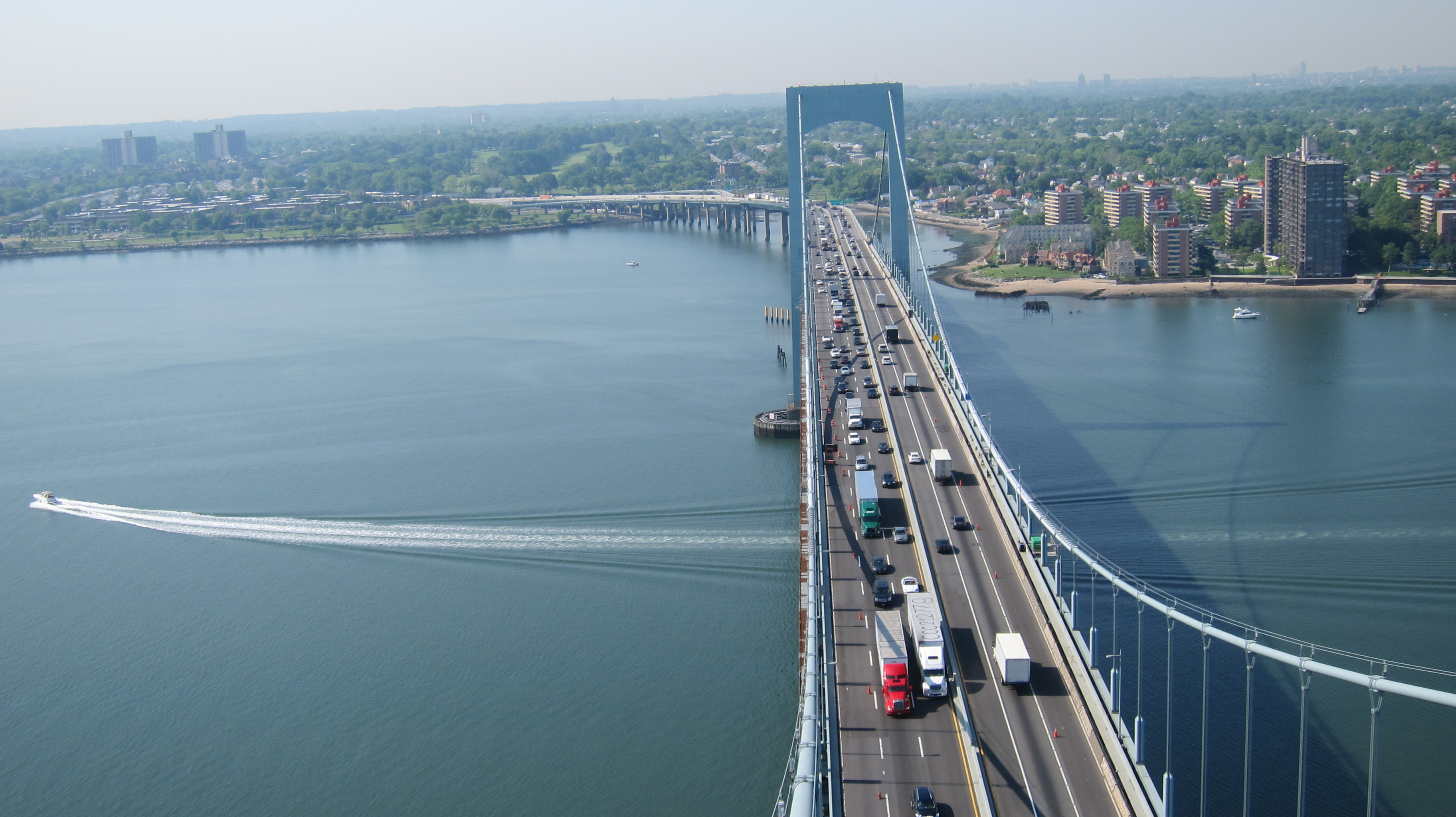 Photo: Metropolitan Transportation Authority / Marisa Baldeo.